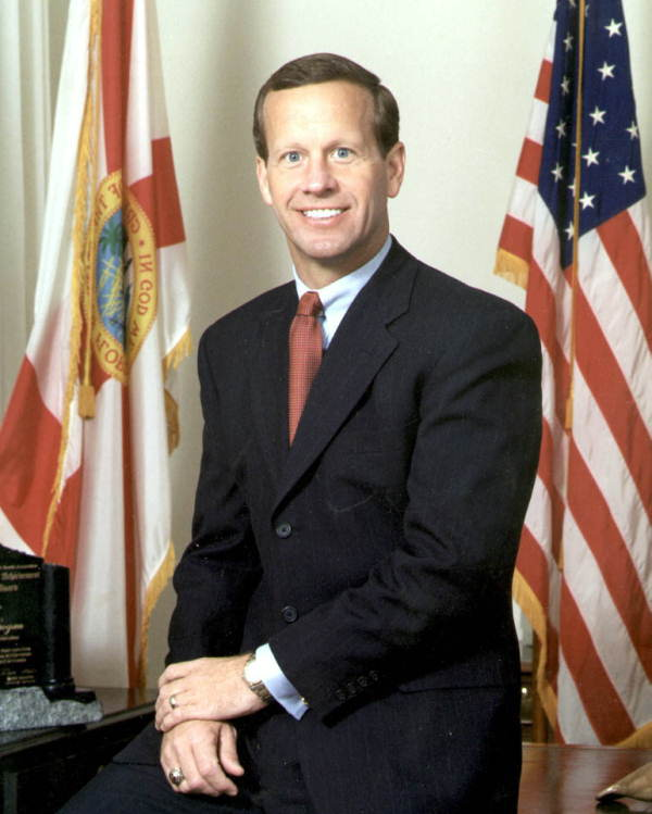 Portrait of Lieutenant Governor Frank Brogan of Florida